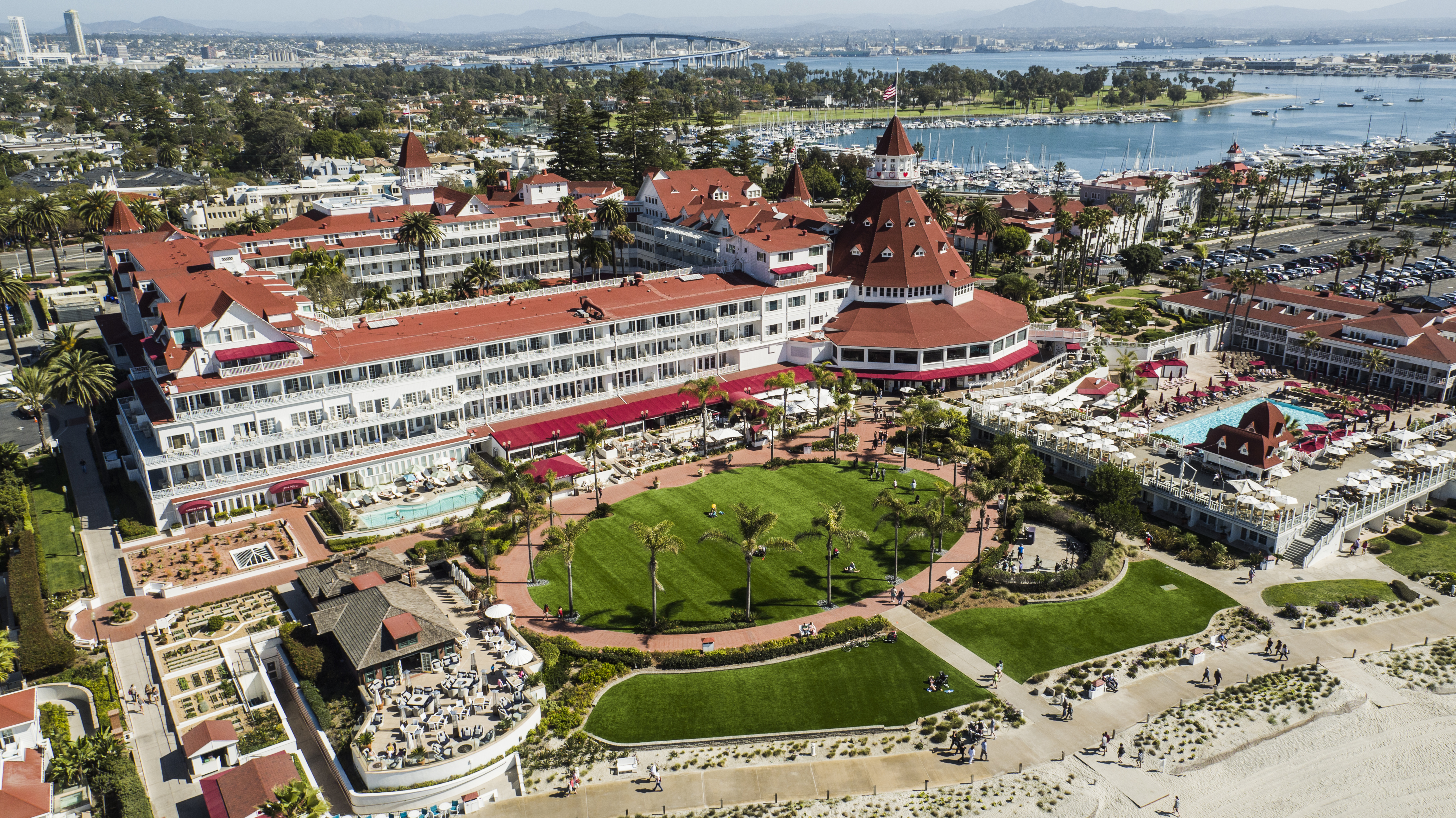 Hotel Del Coronado in the city of Coronado, California